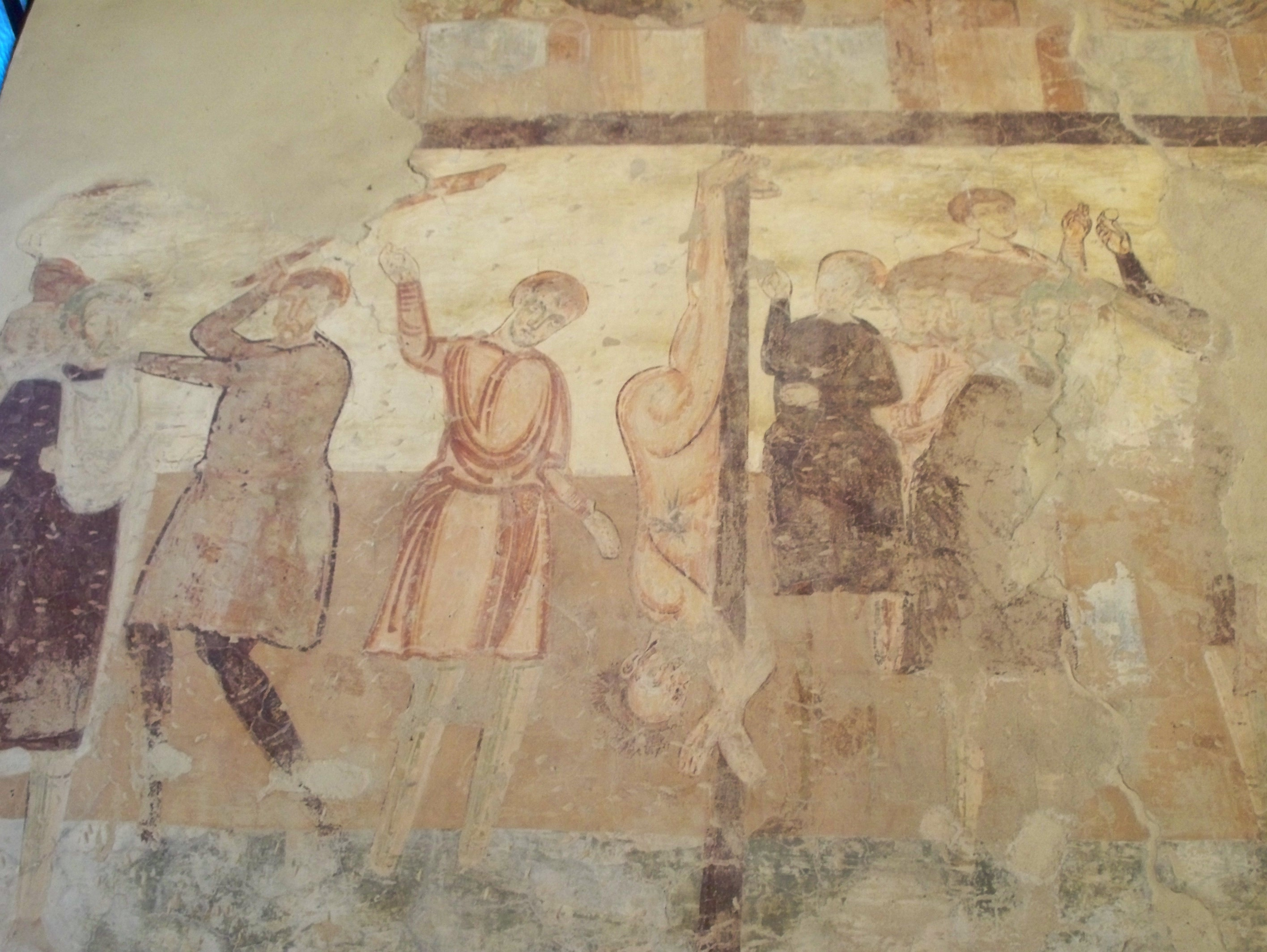 Chiesa di San Martino (Carugo) - affresco